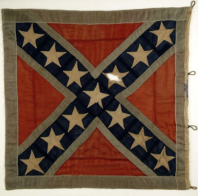 The 30th Georgia Volunteer Infantry battle flag (Co E), Corporal Augustus Pitt Adamson, Company E, 30th Georgia Infantry, Collection